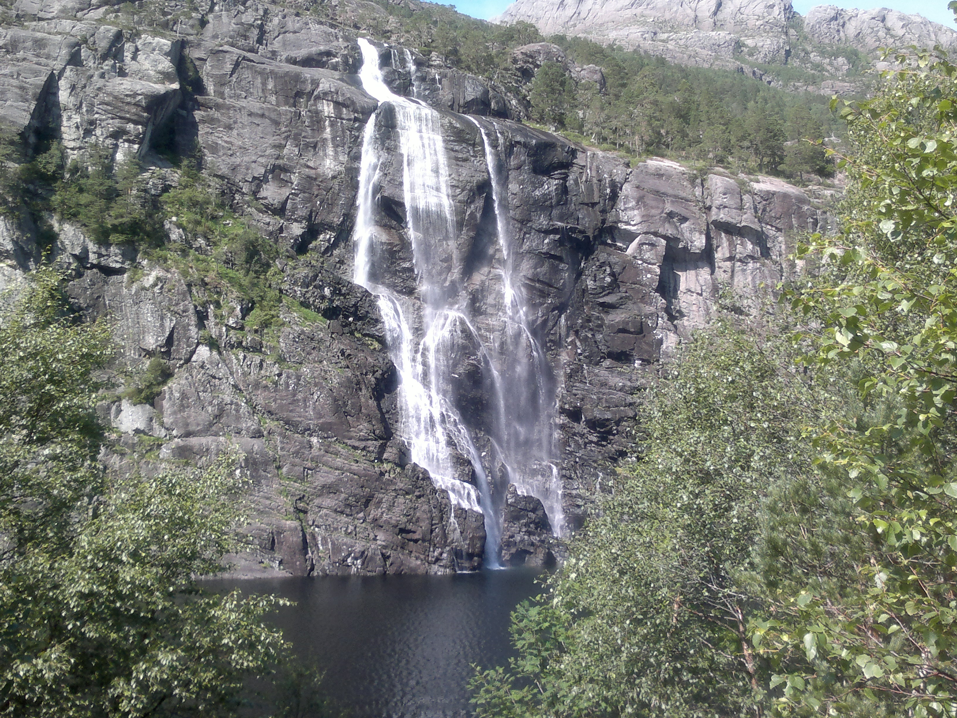 Brudesløret is a waterfall in Haukå, Flora, Sogn og Fjordane, Norway. Picture taken in July 2012.